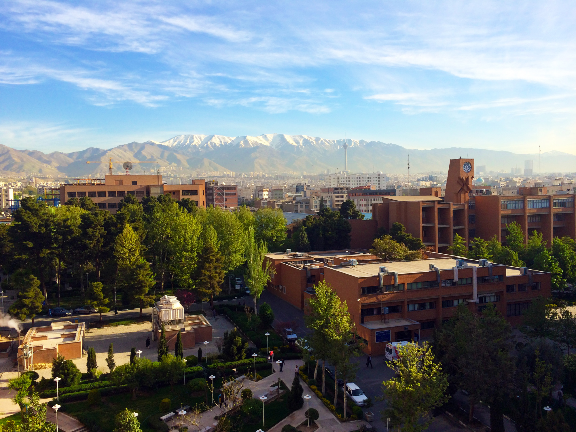 Sharif University of Technology (SUT) (Persian: دانشگاه صنعتی شریف Dāneshgāh-e San'ati-ye Sharif) is an institution of higher education in technology, engineering and physical sciences in Tehran, the only Iranian university included in the Times Higher Education World Universities Ranking.